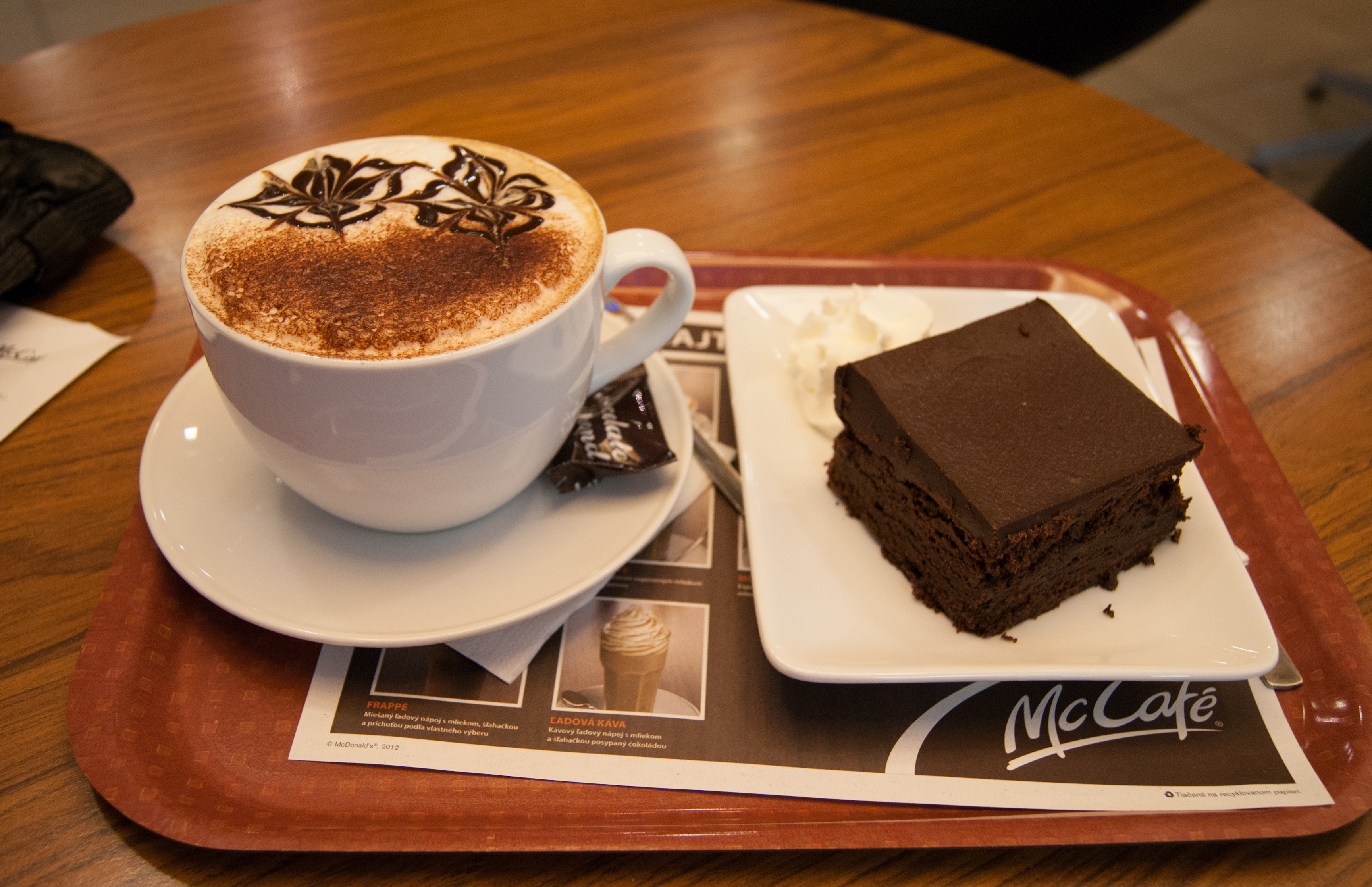 Coffee and cake at a McCafe in Zilina, Slovakia